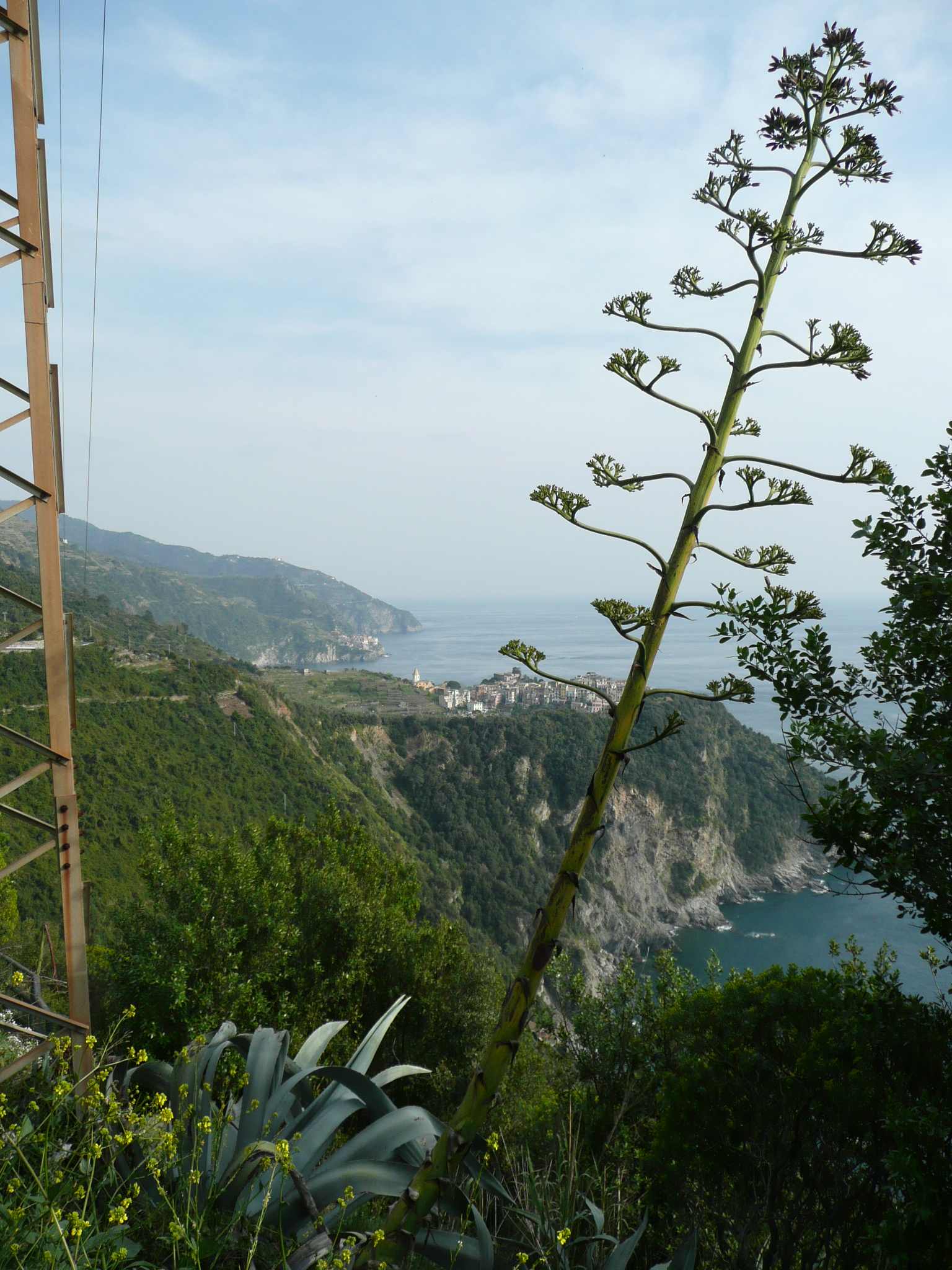 A Maguey Century Plant in bloom in Cinque Terre National Park, Italy.